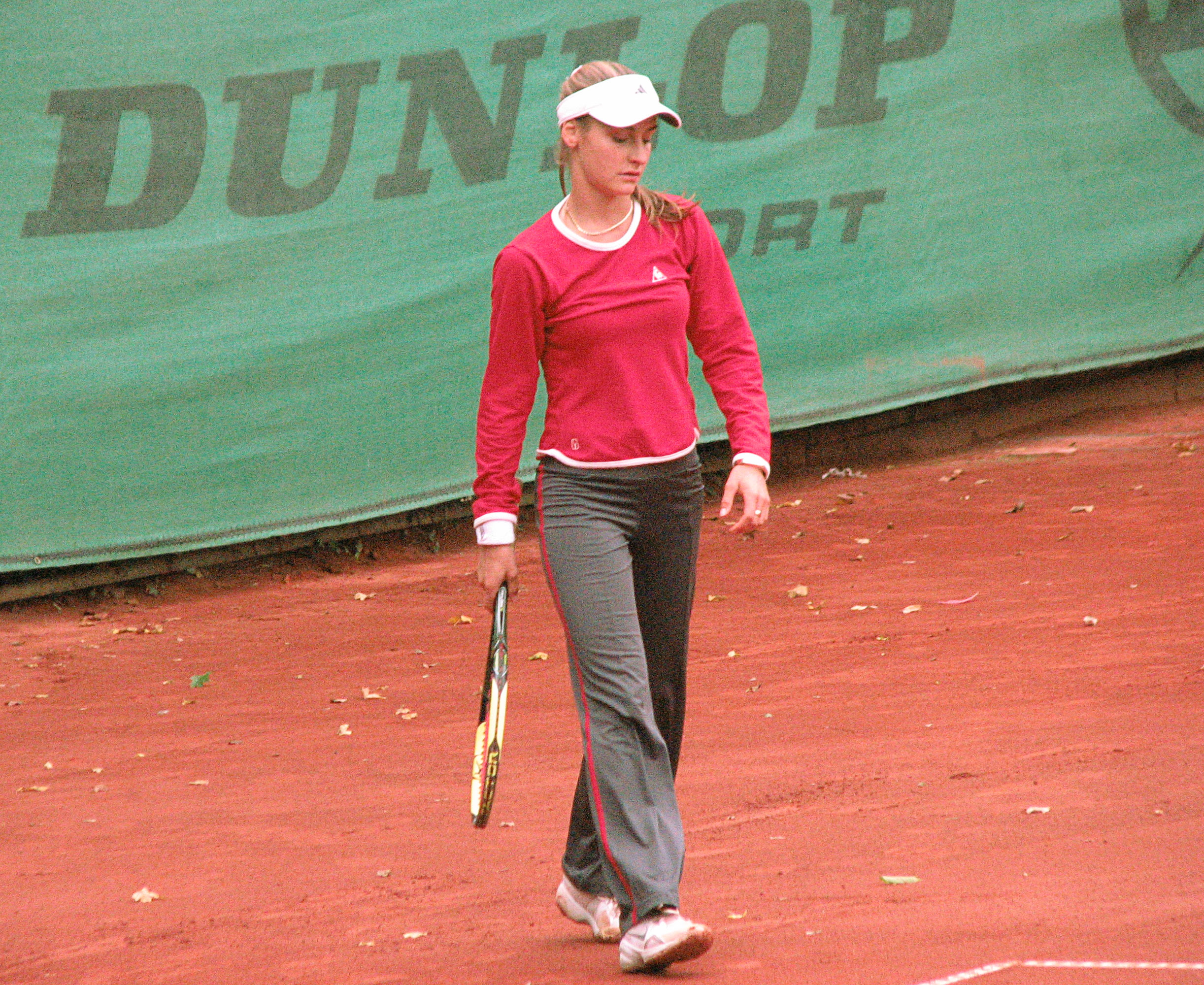 Dia Evtimova (Allianz Cup Sofia 2008)